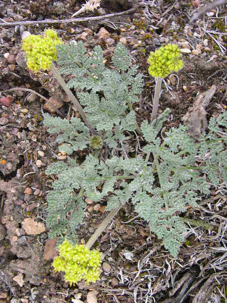 Lomatium foeniculaceum ssp. macdougalii plant in southwest Idaho